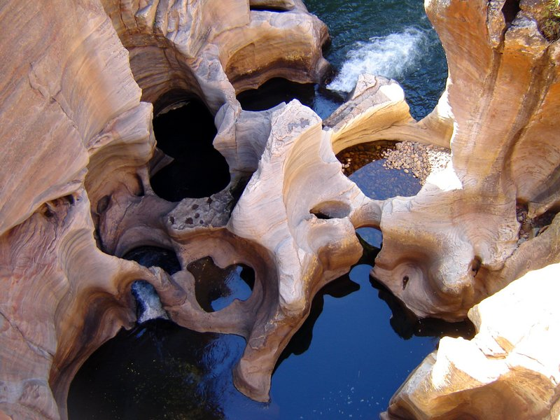 Potholes at Bourke's Luck, near Graskop, Mpumalanga, South Africa